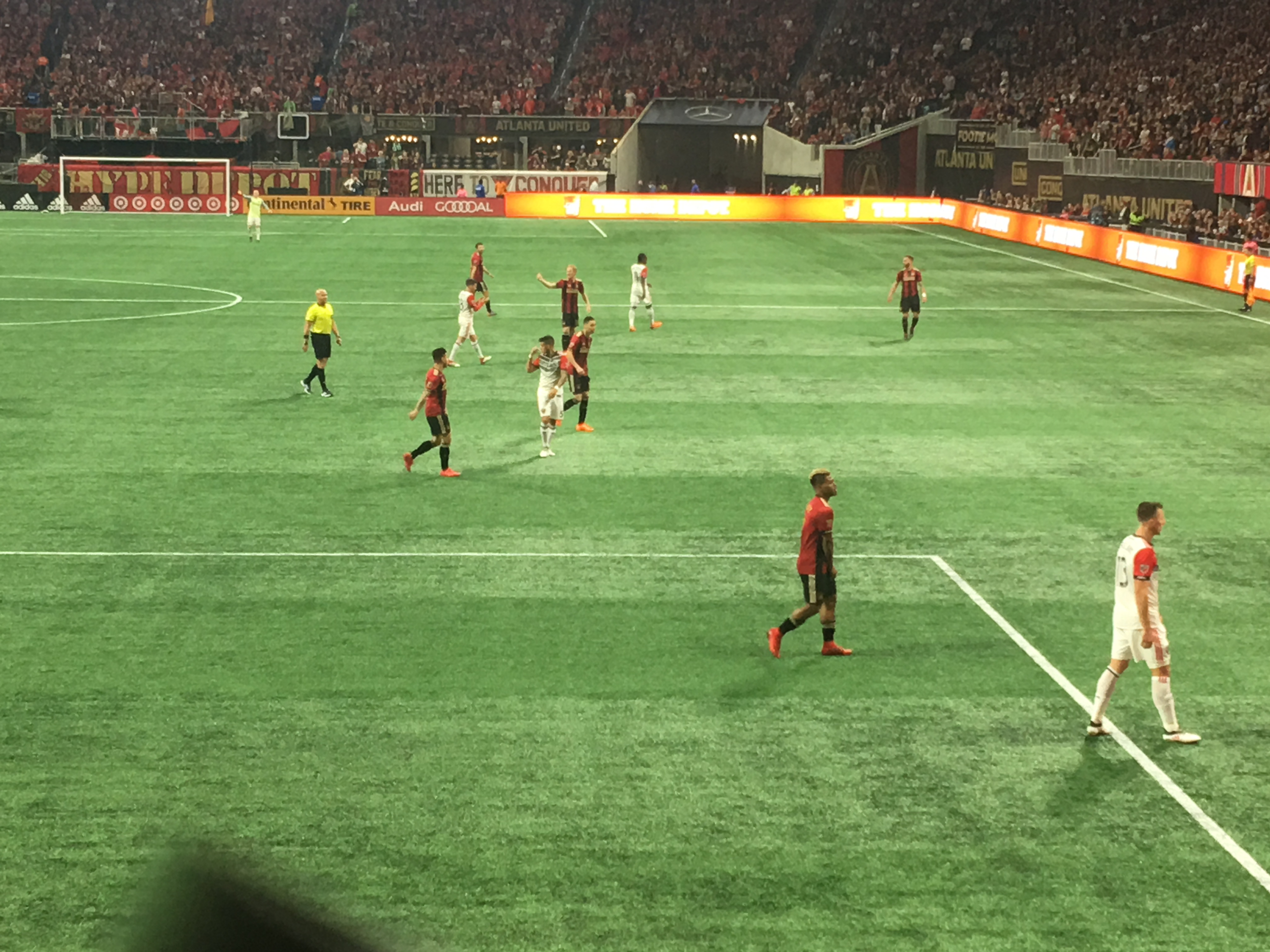 2018-03-11 - Atlanta United vs DC United